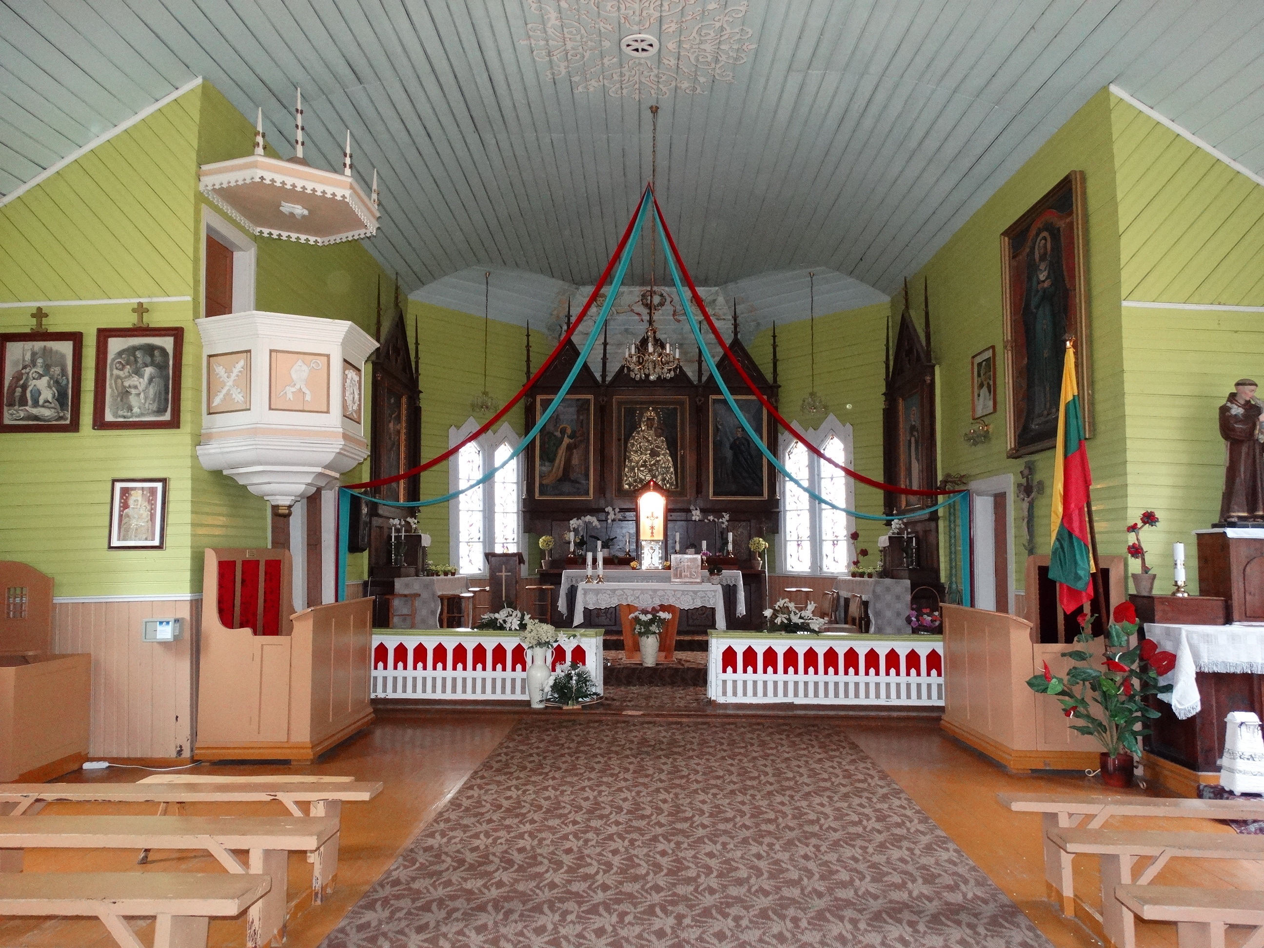 Catholic church interior, Spitrėnai, Utena District, Lithuania